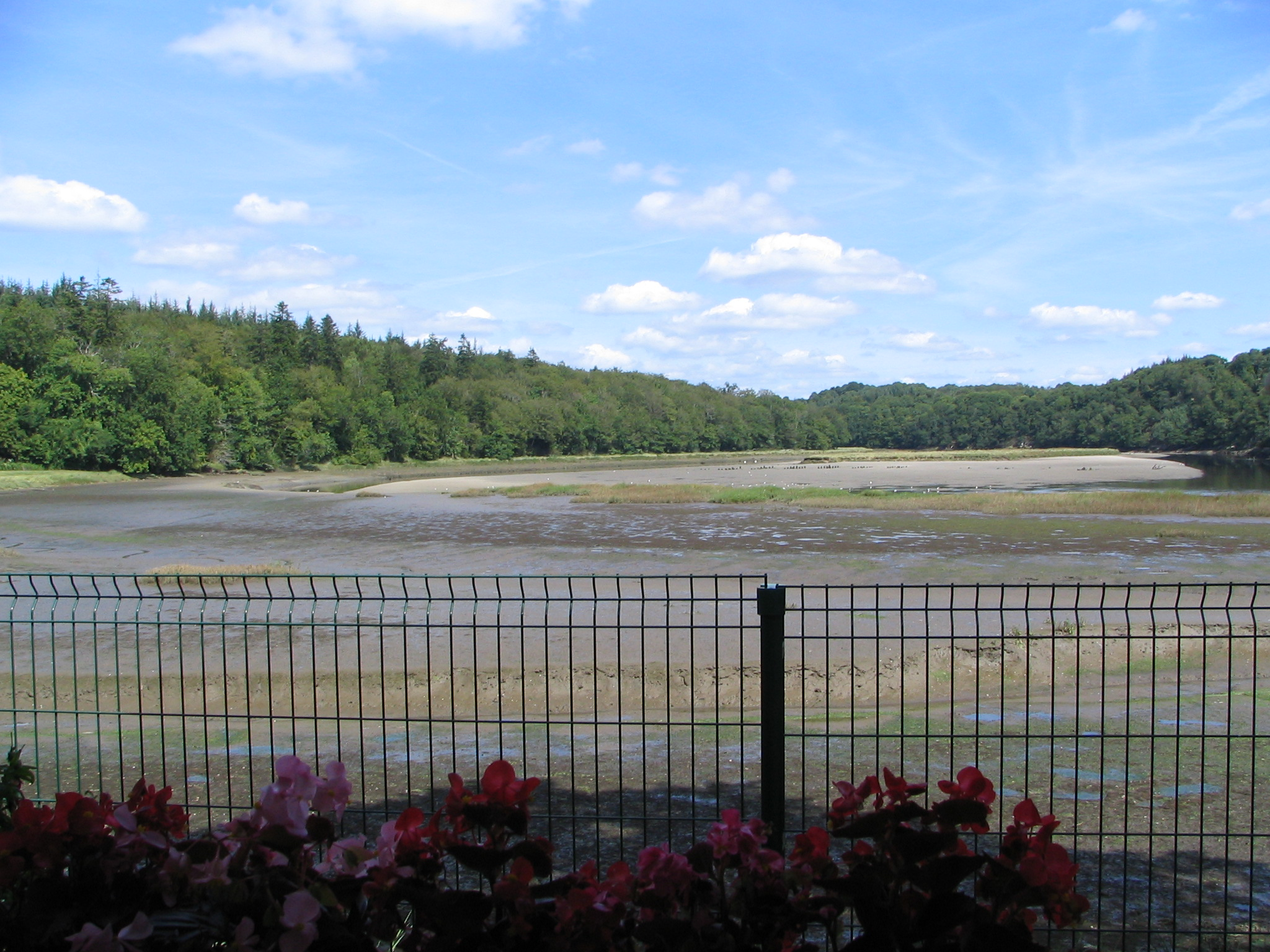 The Laïta River at Saint-Maurice, Clohars-Carnoët, France